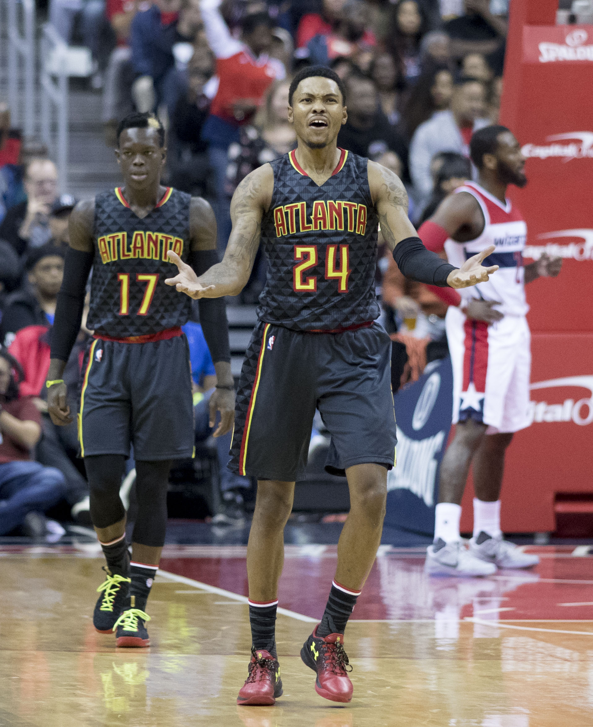 Hawks at Wizards 11/4/16